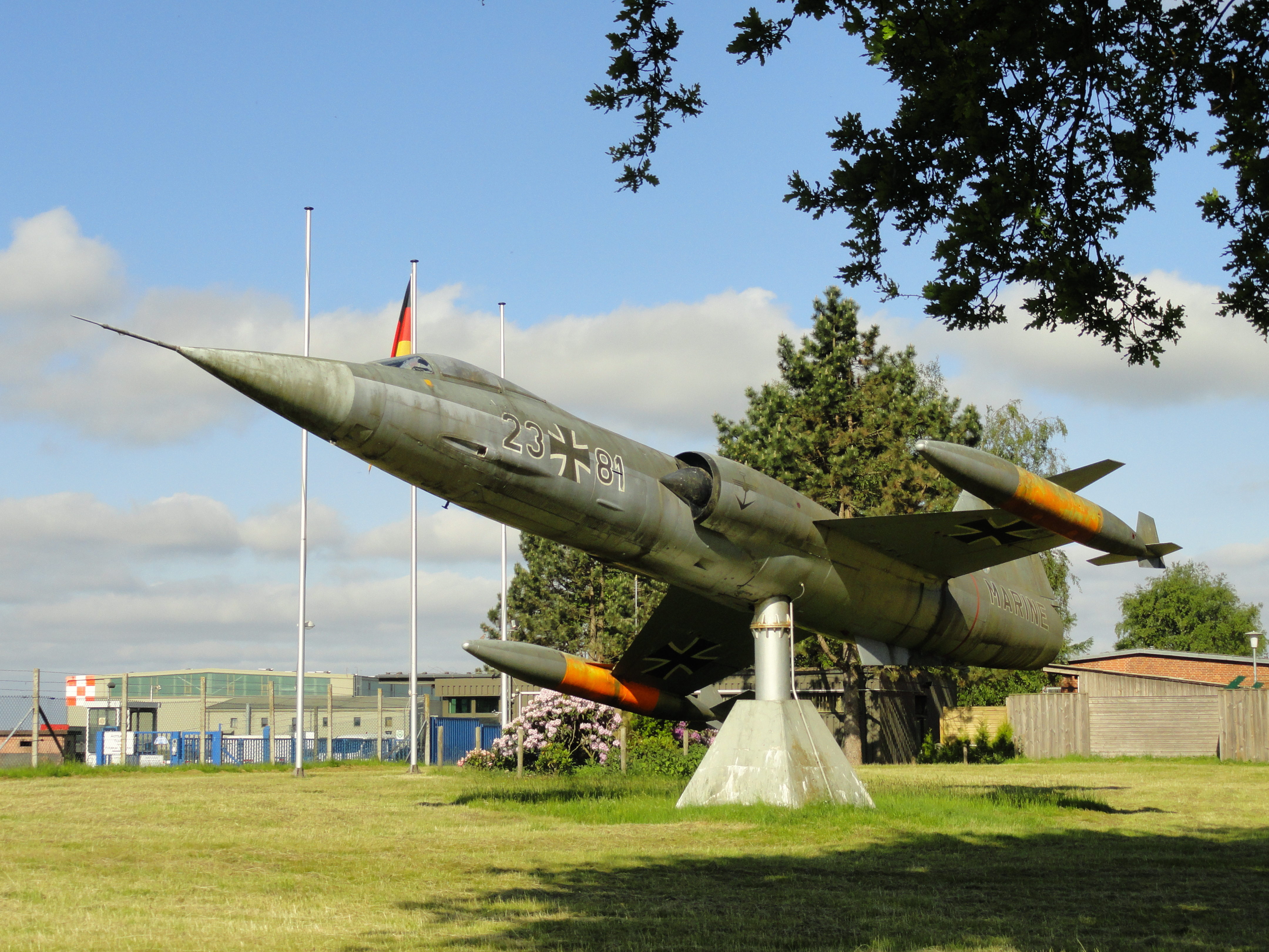 Photographed near Jagel, Germany.